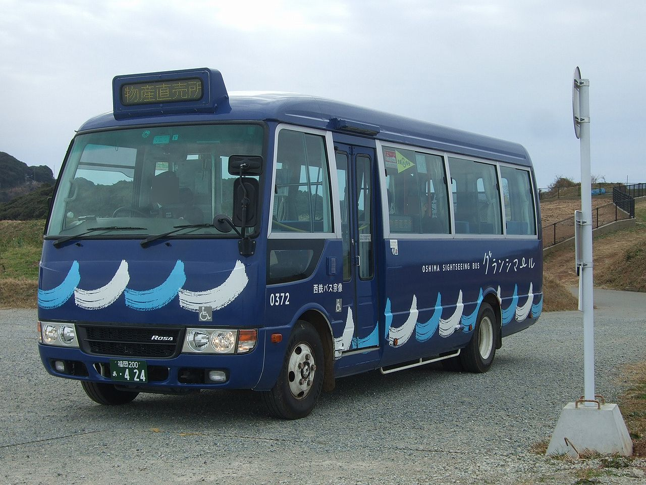 Ooshima Island (Fukuoka) sightseeing transit bus "Grand Shima-ru". Company:Nishitetsu Bus Munakata Use:transit bus Car license:FOF200 A 424 Code:0372 Chassis manufacturer:Mitsubishi Fuso Truck and Bus Type:Rosa Coachbuilder:Mitsubishi Fuso Bus Manufacturing Location:In Ooshima, Munakata City, Fukuoka, Japan.